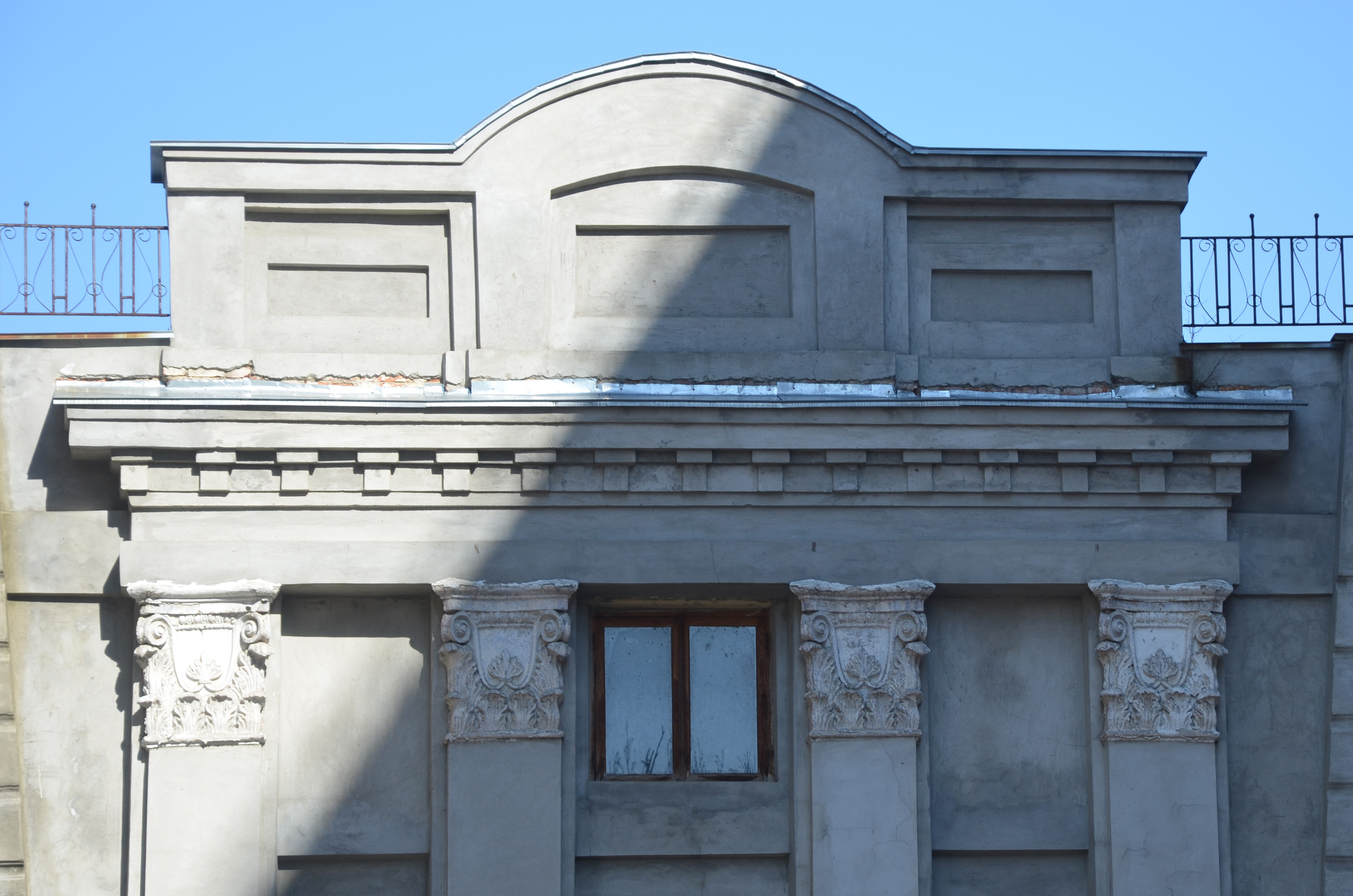 Дизайн верхньої частини будинку, який колись був театром